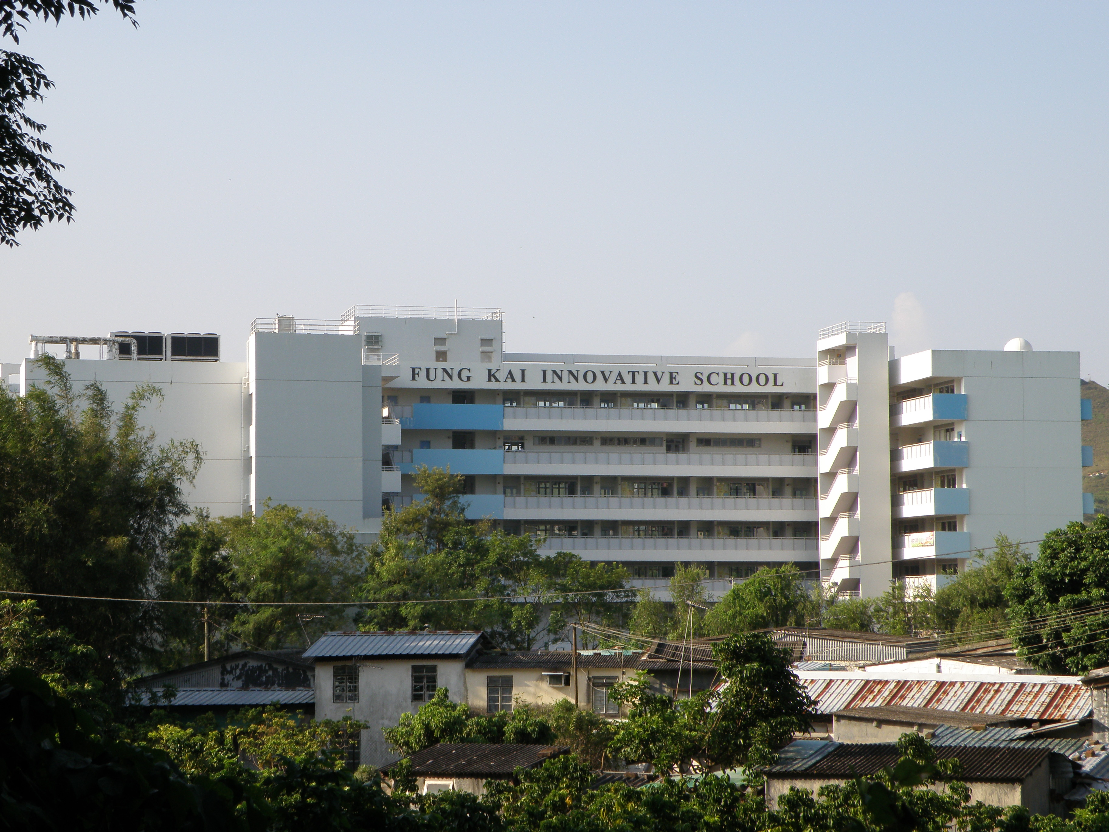 Fung Kai Innovative School in Sheung Shui, Hong Kong.